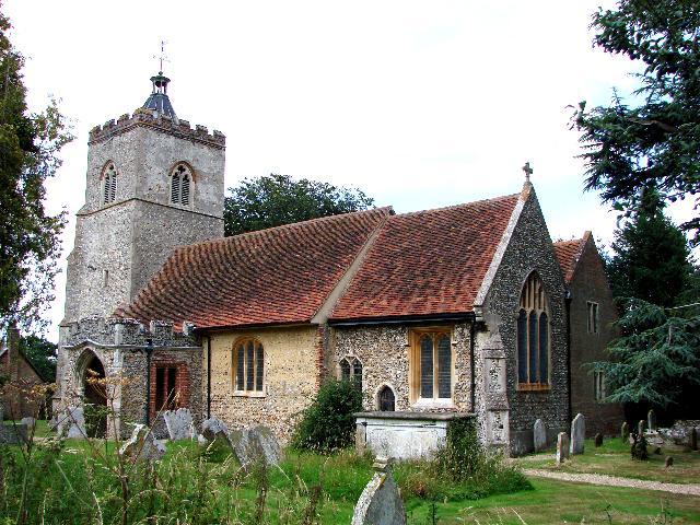 Little Cornard All Saints church, near to Little Cornard, Suffolk, Great Britain. The church dates from about the 15th c. More information about this church is available in my book, 'A photographic and Historical Guide to the Parish Churches of West Suffolk'.